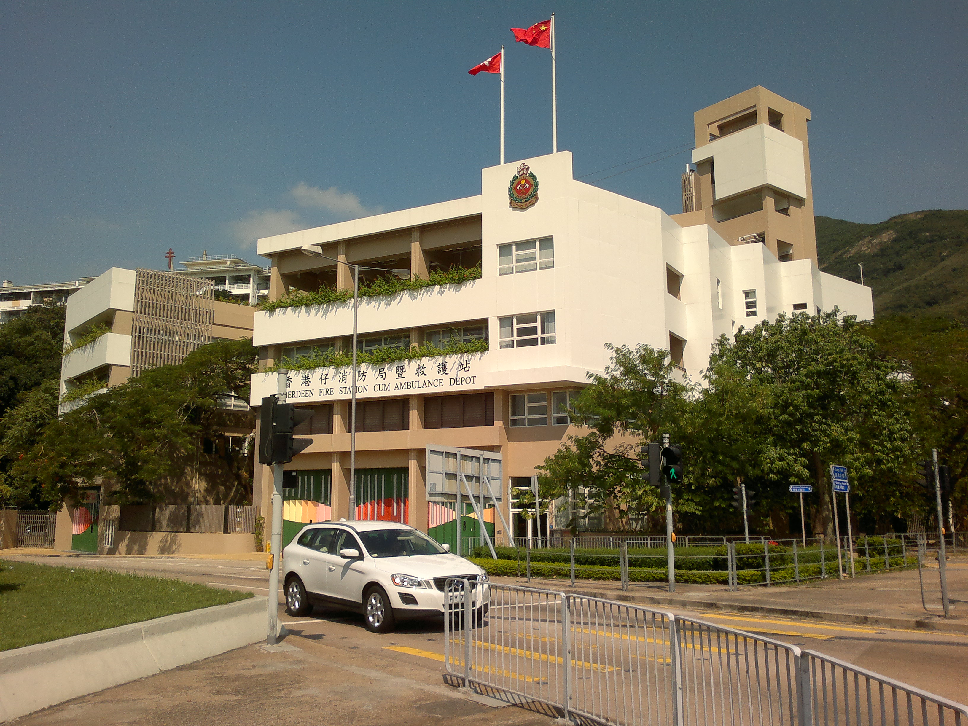 New Aberdeen Fire Station